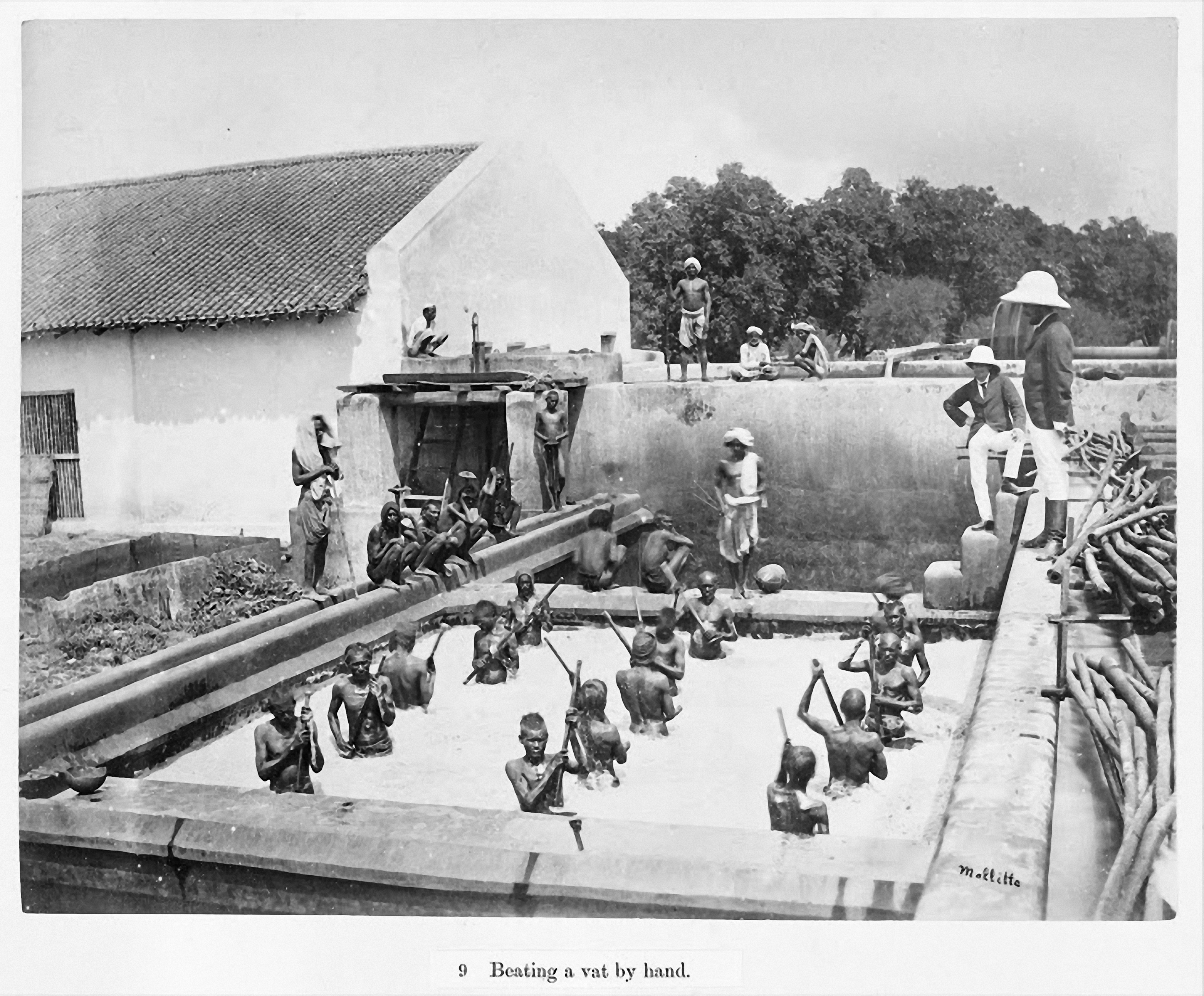 The planting and manufacture of Indigo in Allahabad, India in 1877.